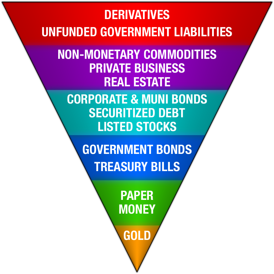 A modern version of John Exter's inverted pyramid of global liquidity